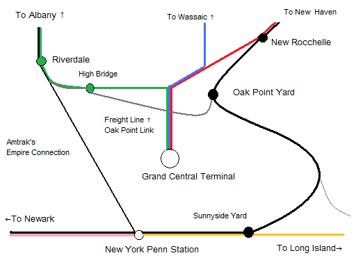 an easy railway map around New York City. amtrak, metro north, LIRR, CSX etc.